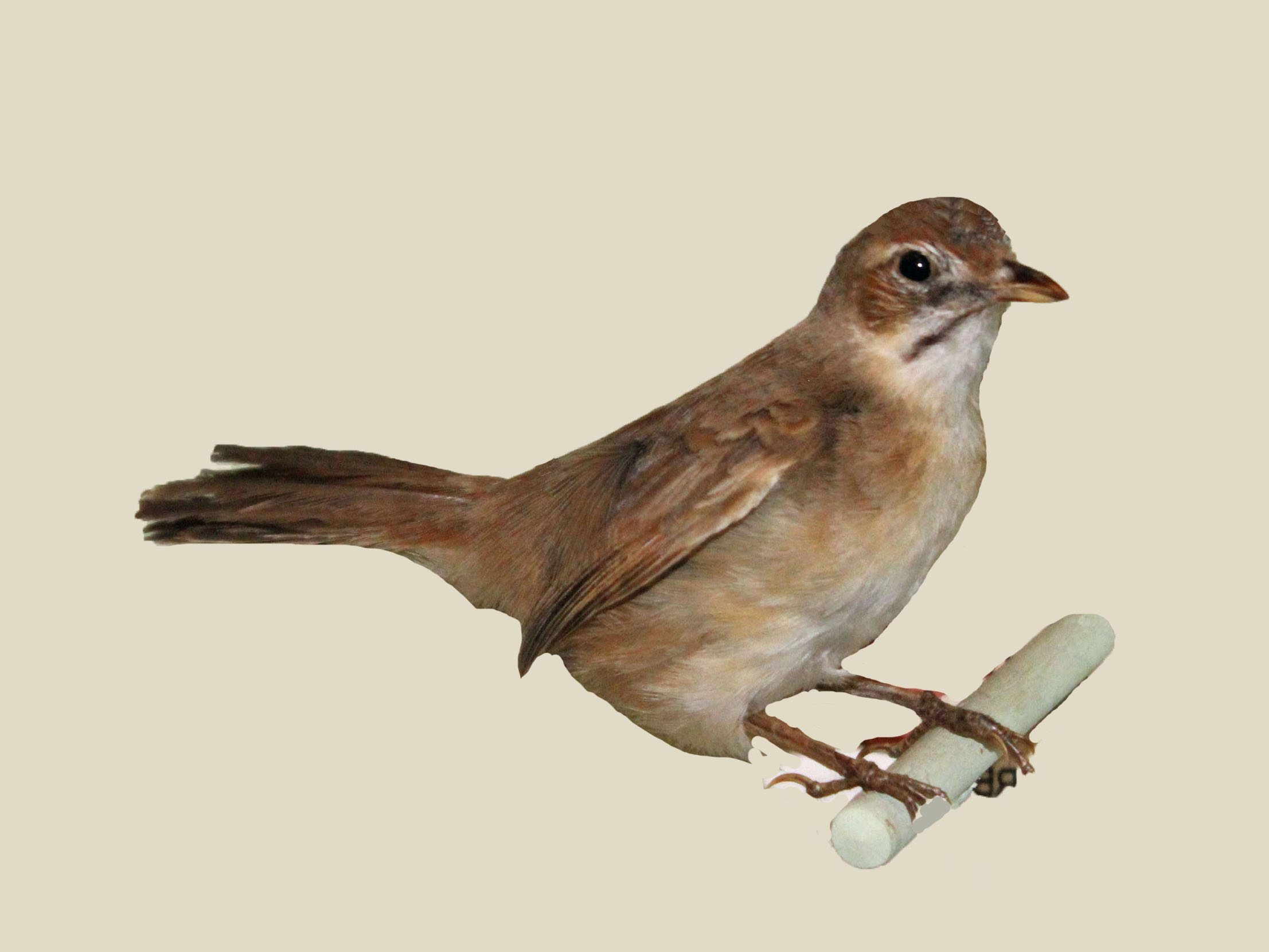 Moustached Grass-Warbler (Melocichla mentalis). Photograph of a specimen at Nairobi National Museum in Nairobi, Kenya. Eye color is not realistic.